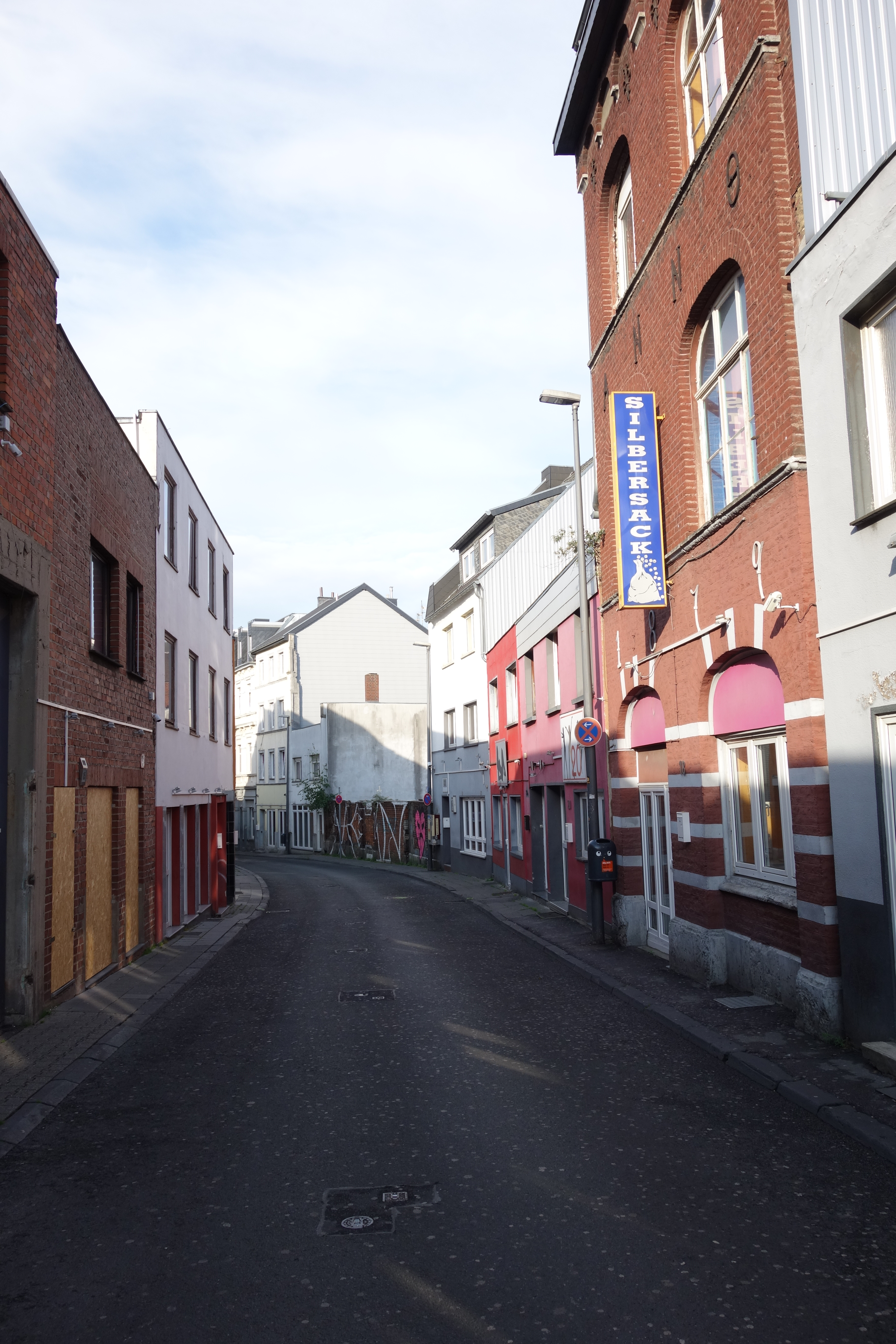 Antoniusstraße Aachen